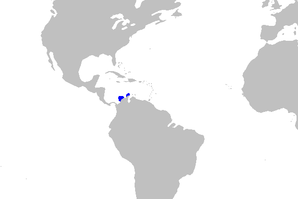 Distribution map for Etmopterus perryi